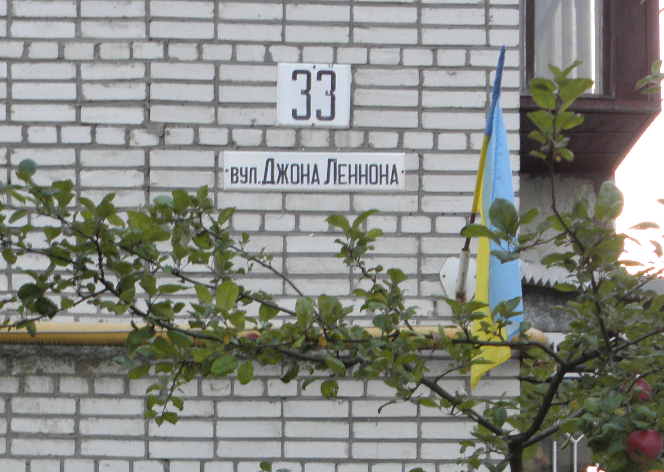 John Lennon street sign in Lviv, Ukraine